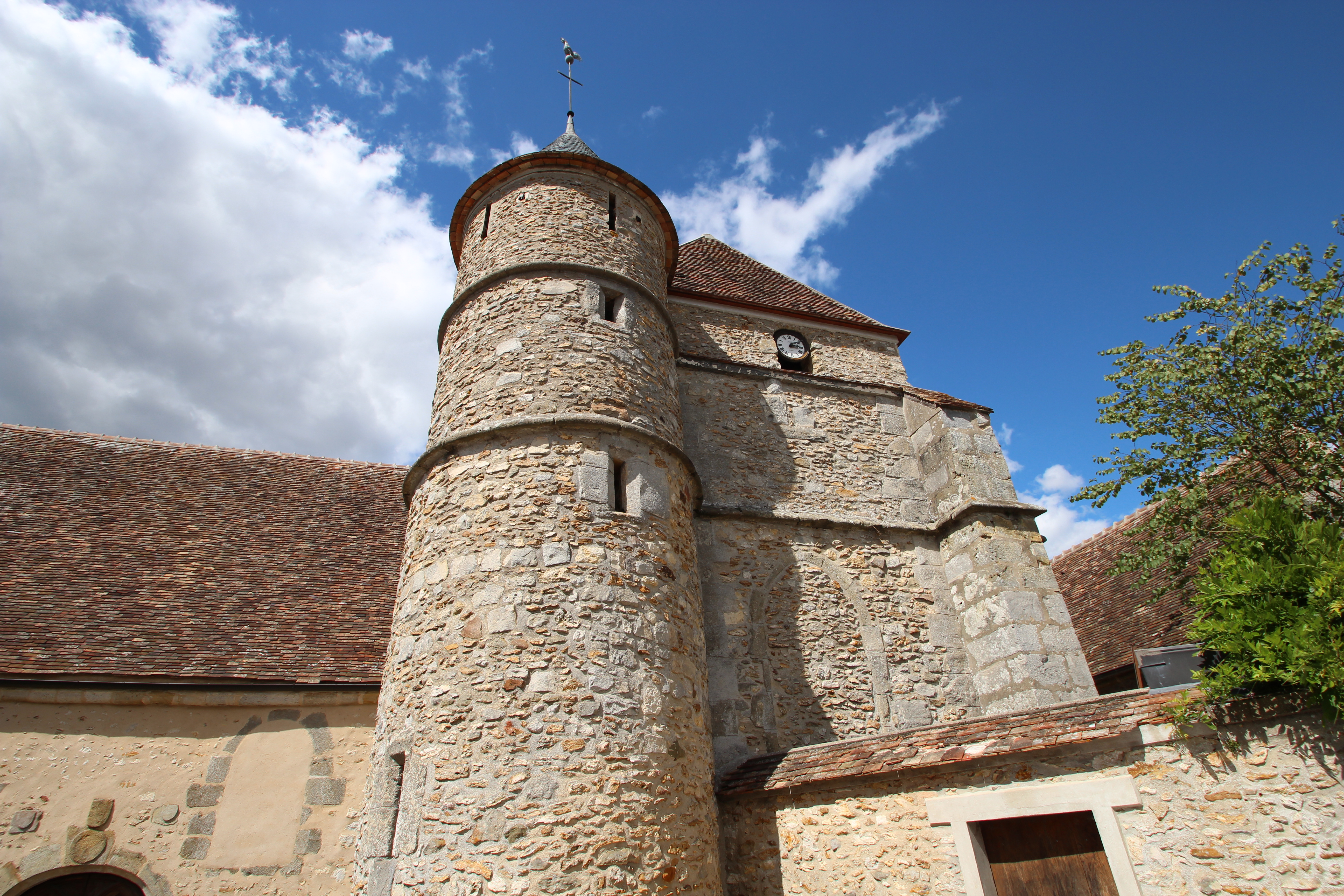 Saint-Eutrope church of Orcemont, France. . Object location48° 35′ 18.4″ N, 1° 48′ 26.52″ E